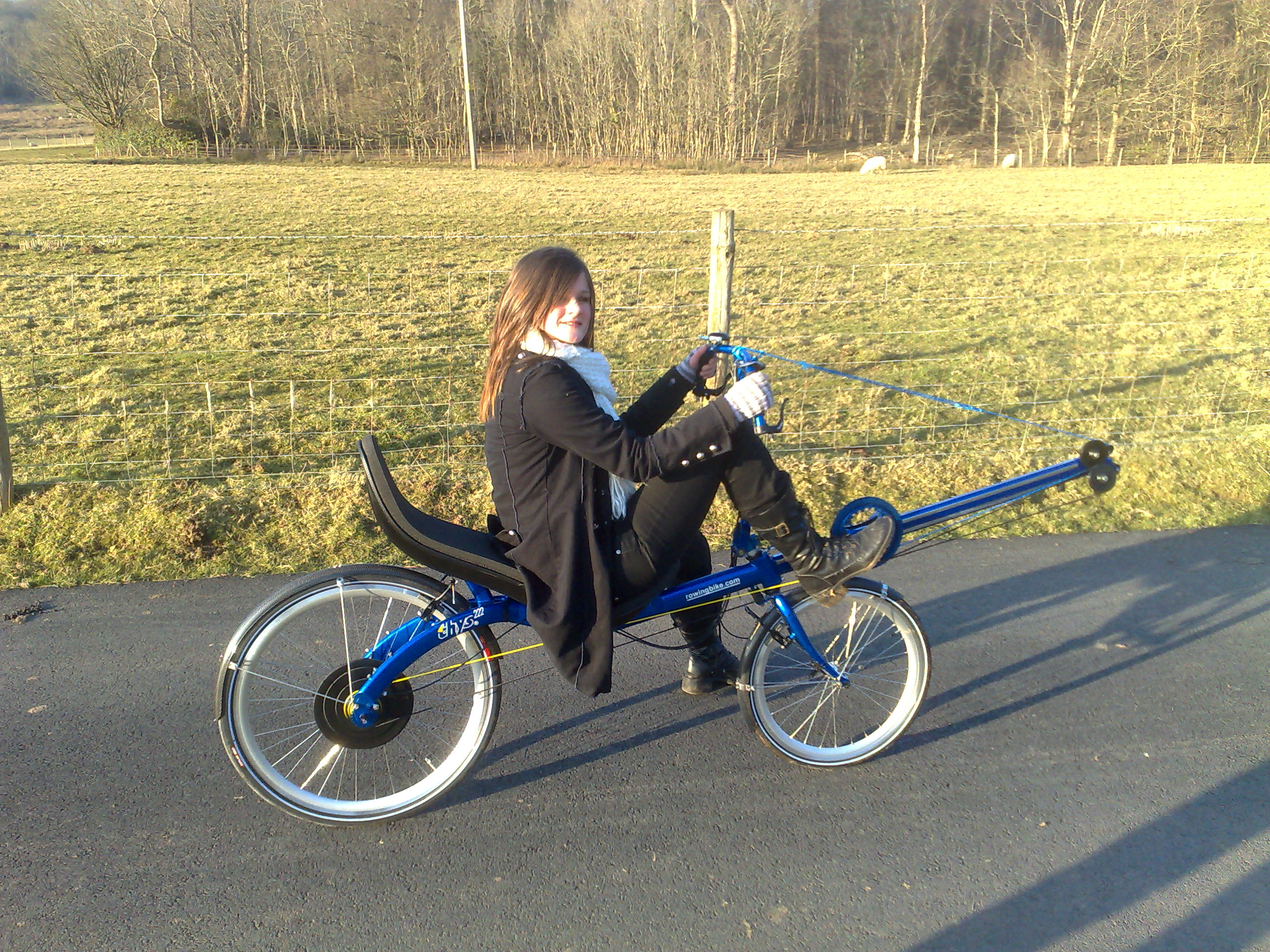 A Thys rowingbike with Eli looking cool